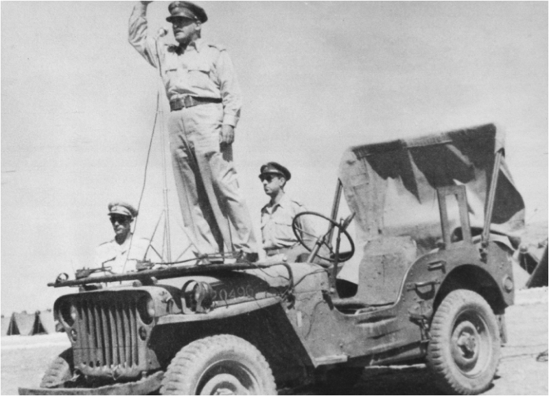 Greek colonel Thrasyvoulos Tsakalotos speaks to soldiers of 3rd Greek Mountain Brigade before being sent to Italy, June 1944 года, Palestine